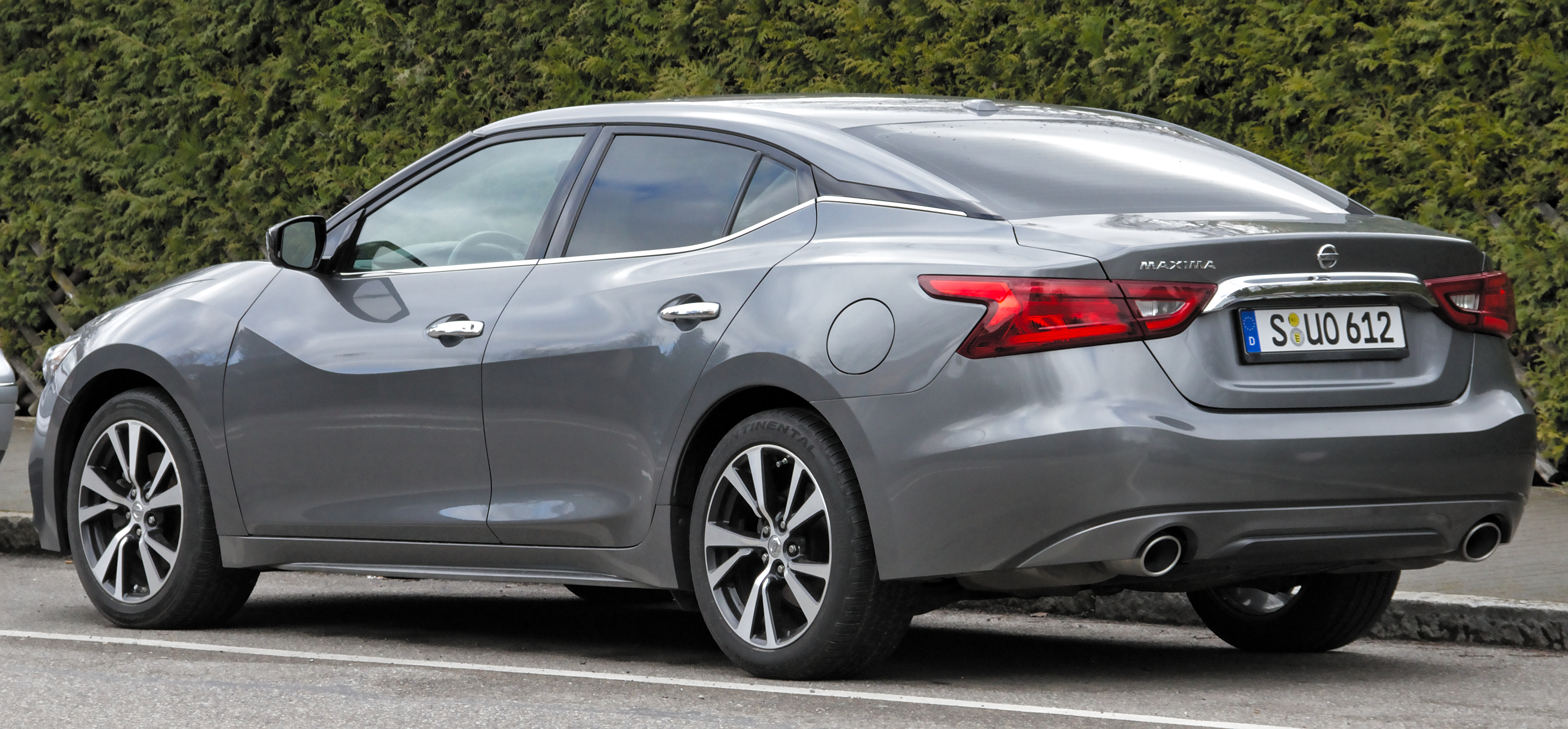 Nissan_Maxima_(A36) in Stuttgart-Vaihingen